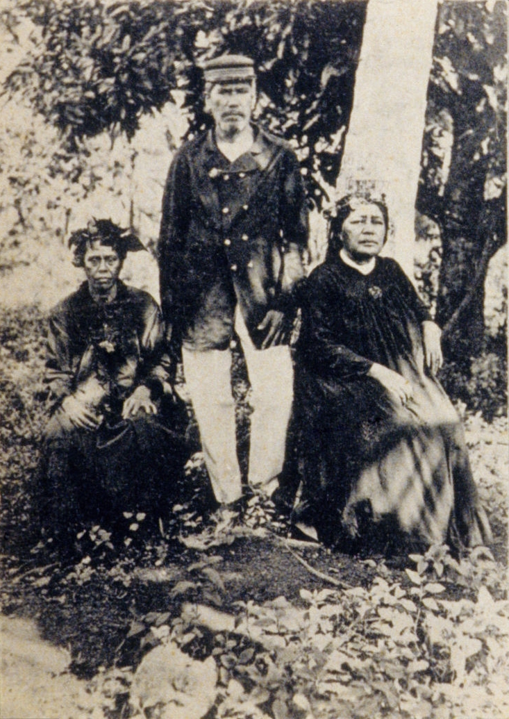 Raiatea - The Chief Teraupoo.